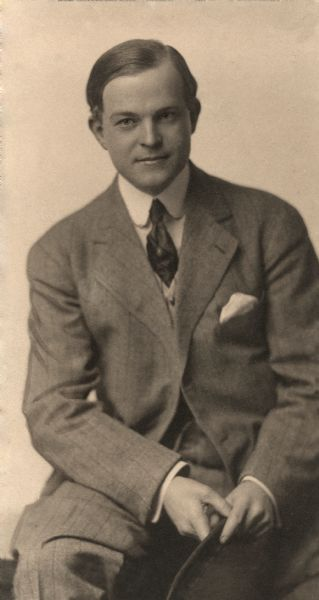 Publicity still of silent film comedian Billy Quirk used to announce his engagement with the Solax Film Company in 1912.